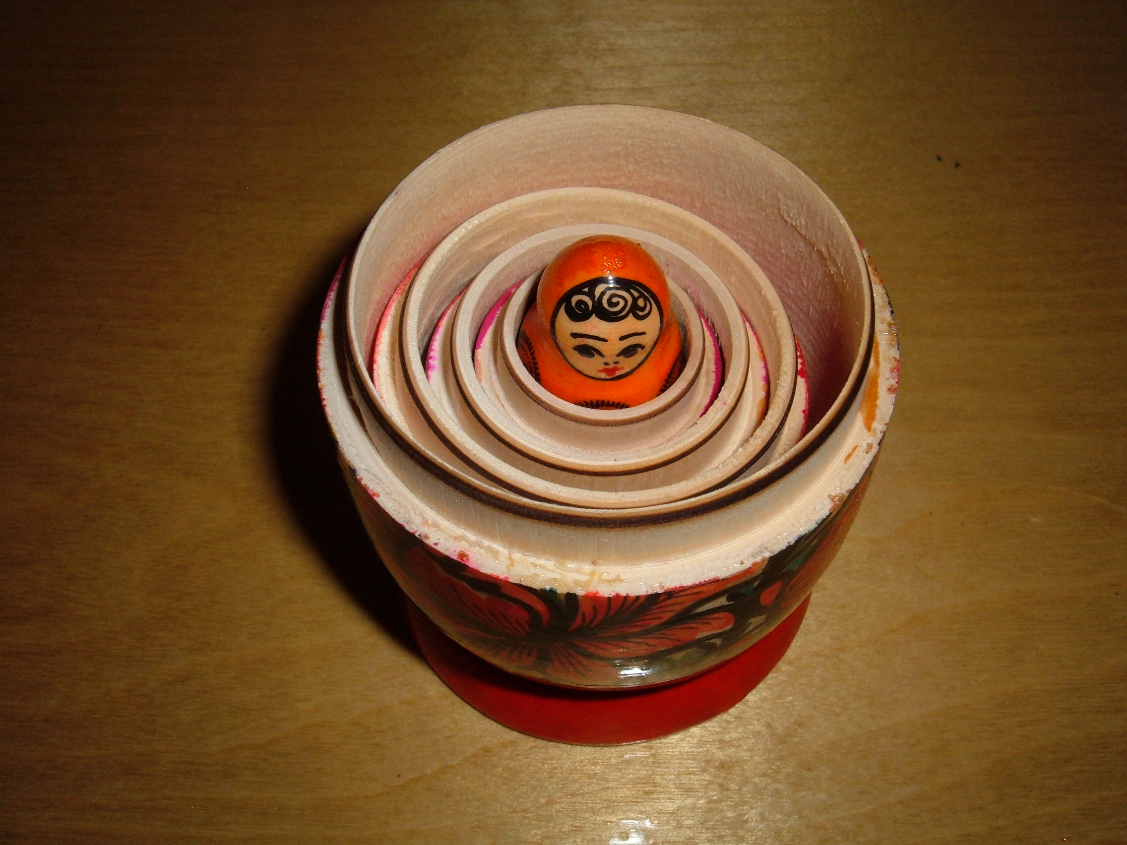 The smallest doll in a set of floral-themed matryoshkas nested in the lower halves of the bodies of the larger dolls. The full set can be seen at Image:Floral matryoshka set 2.JPG.